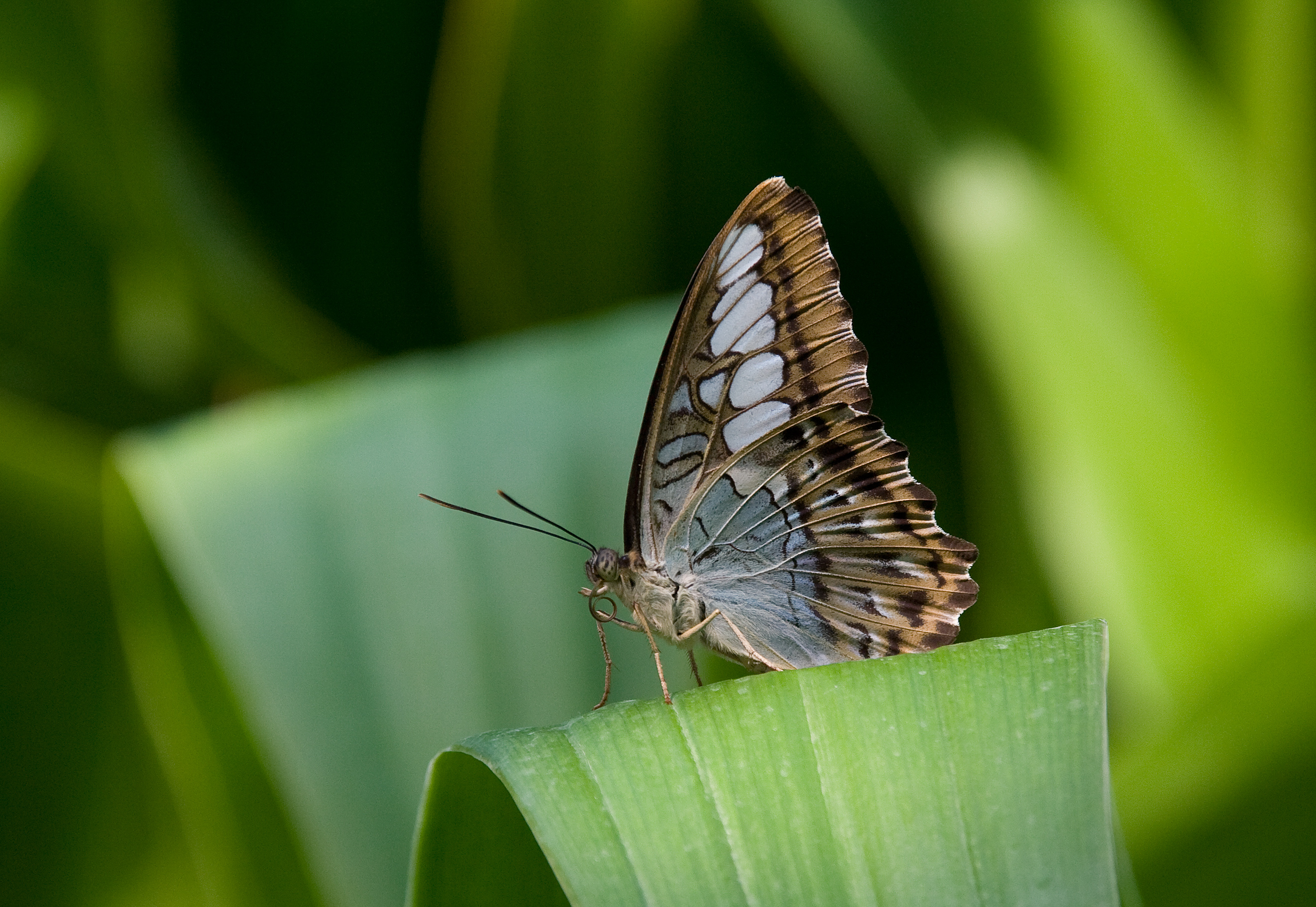 Parthenos sylvia